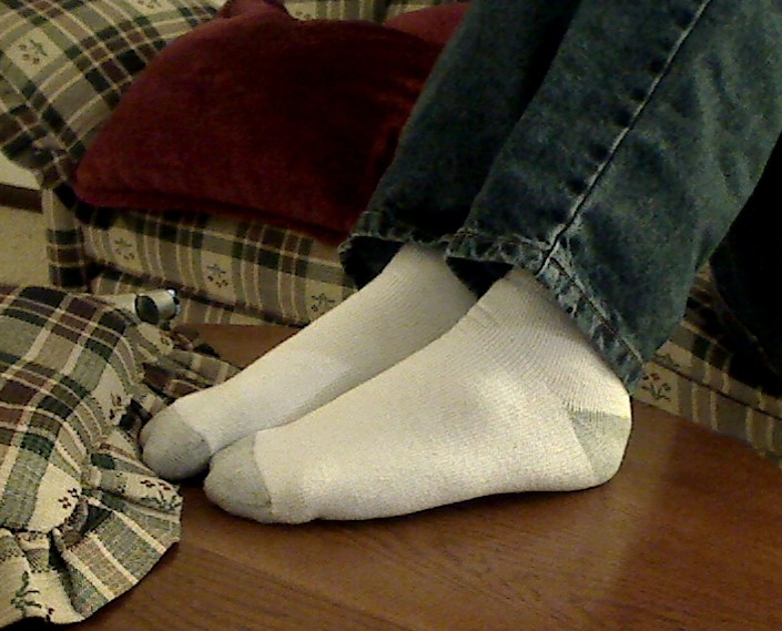 Socks on feet.